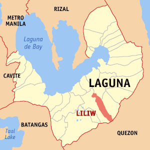 Locator map of Liliw in Laguna, Philippines.